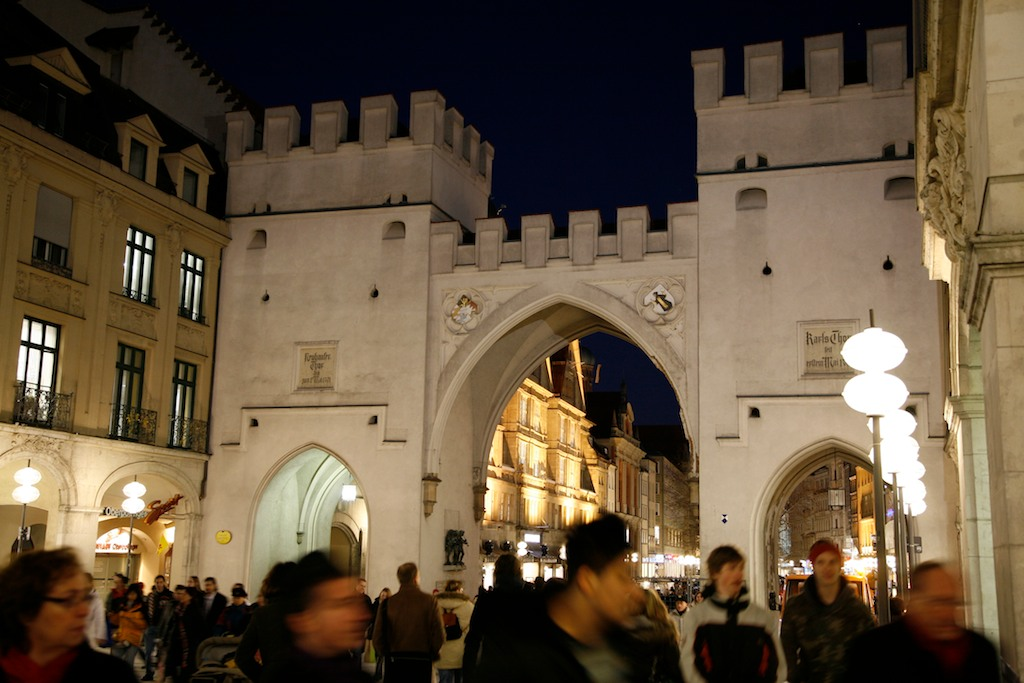 "Karlstor" located in downtown of Munich, Germany